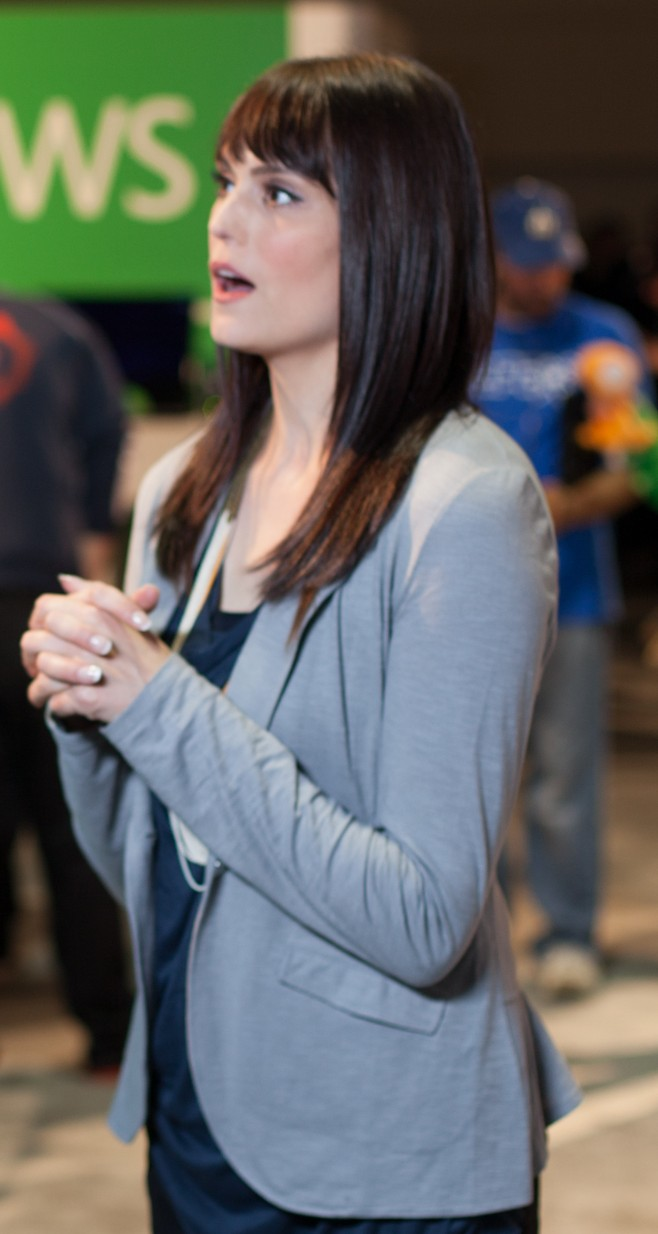 Morgan Webb at PAX Prime 2012.